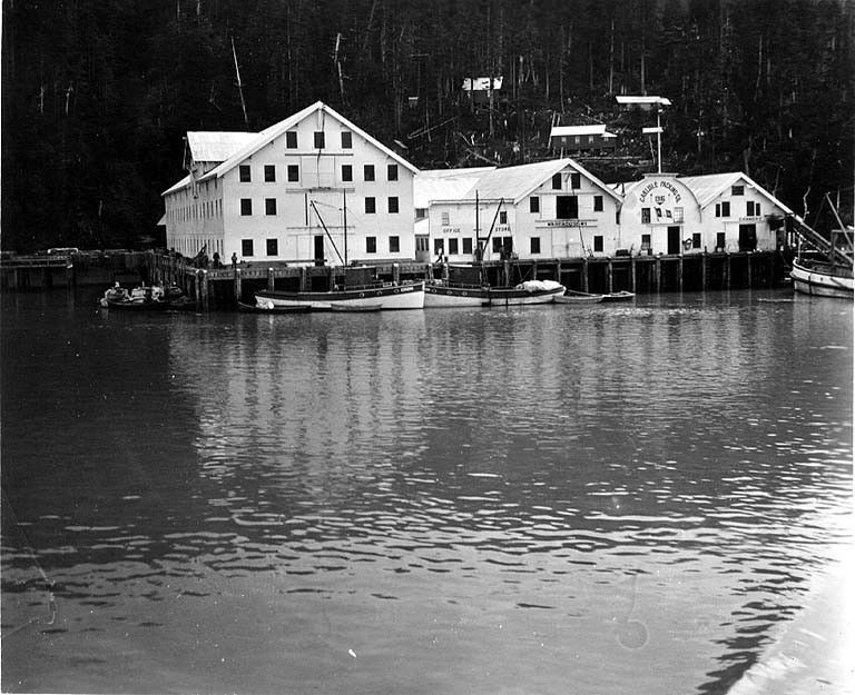 From John Cobb field notebook: Cordova Cannery of the Carlisle Packing Co. Aug. 1917 Subjects (LCTGM): Canneries--Alaska--Cordova; Fishing boats--Alaska--Cordova Subjects (LCSH): Carlisle Packing Company; Salmon canning industry--Alaska--Cordova